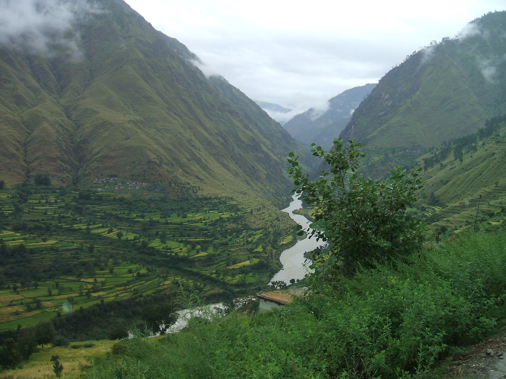 Karnali River, Nepal It is known as Ghaghara river in India